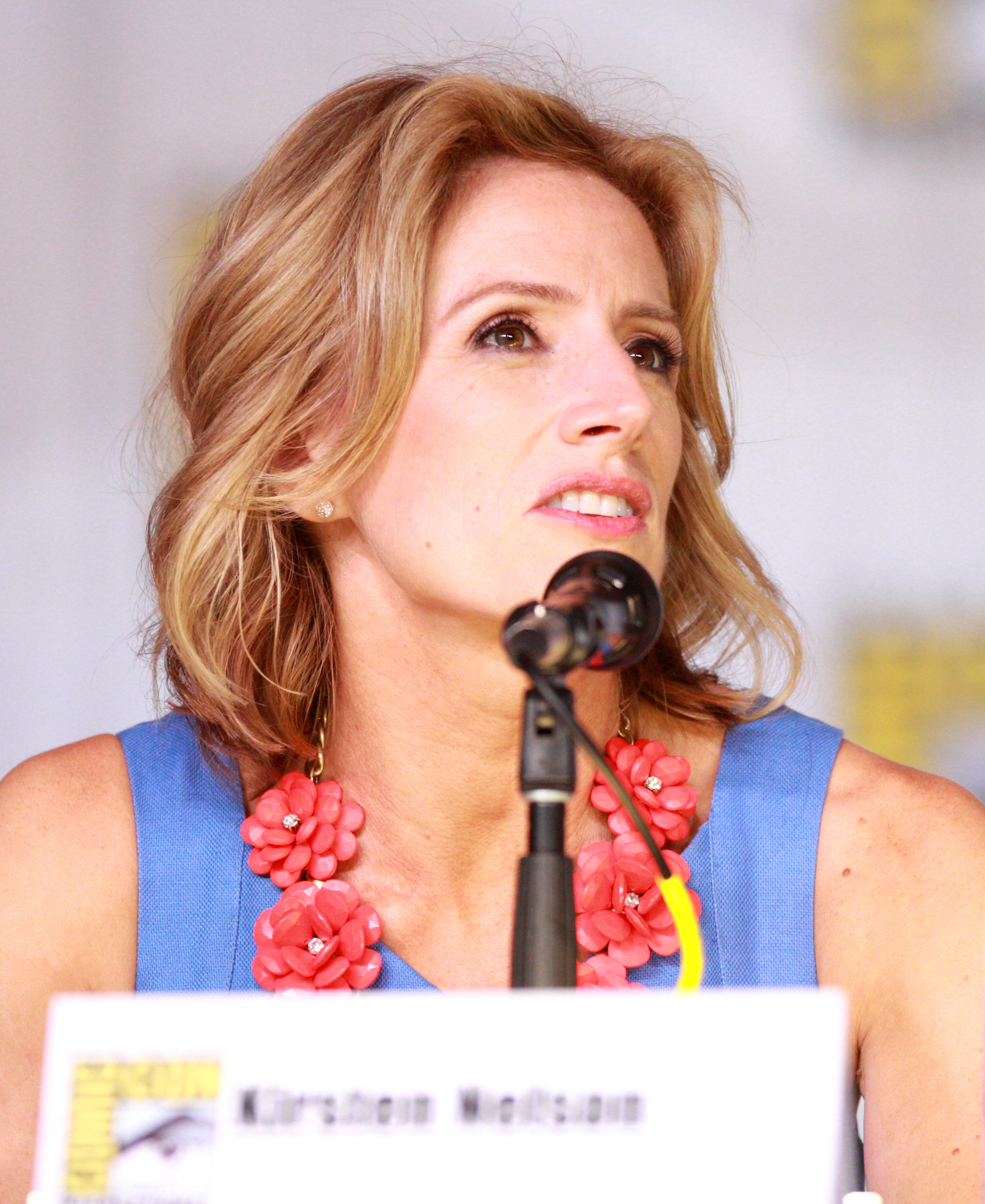 Kirsten Nelson at the 2013 San Diego Comic Con International in San Diego, California.